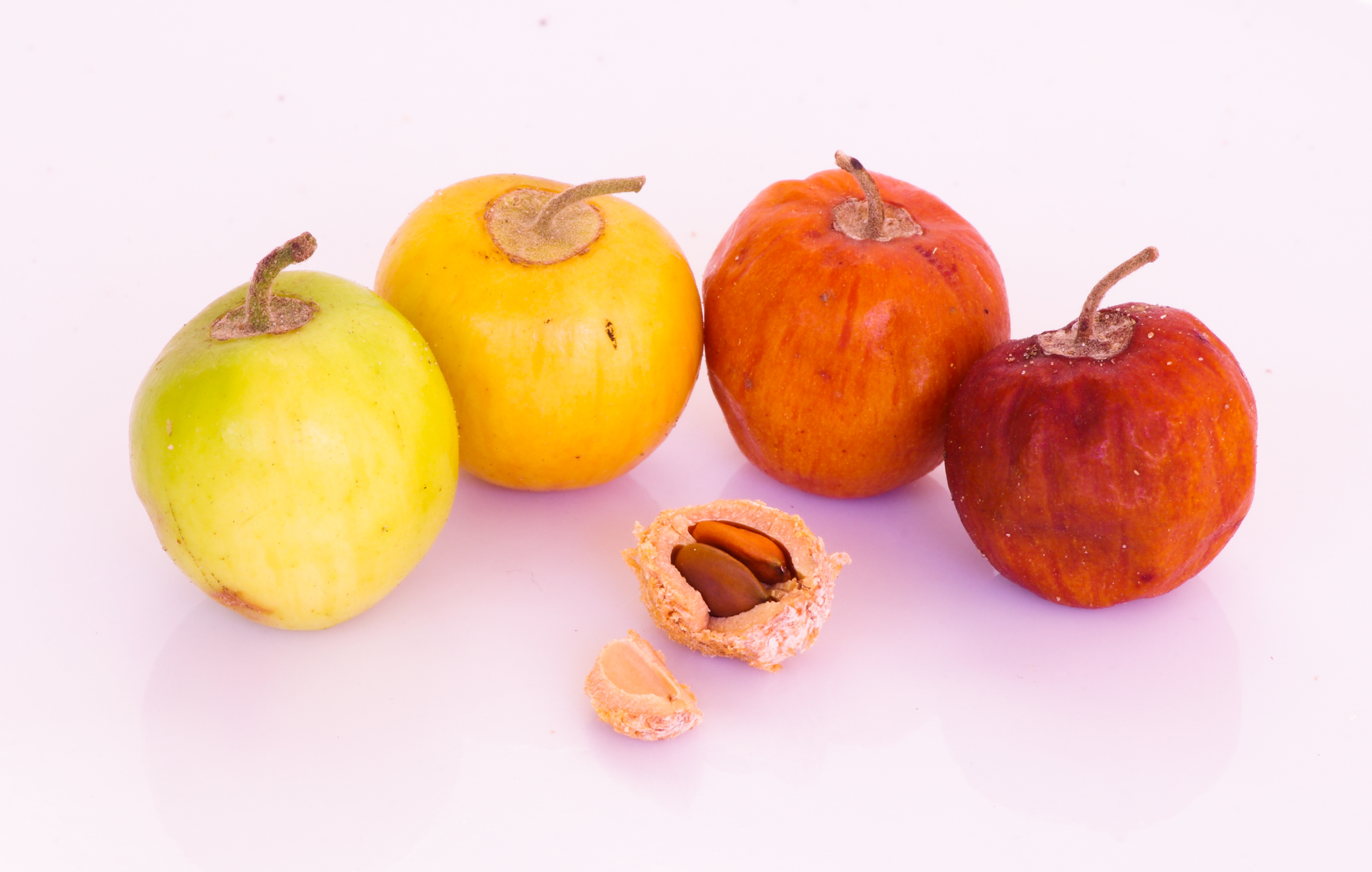 Ziziphus mauritiana, from Malika, Senegal, showing various stages of ripeness and drying. Stone, foreground, contains two seeds.